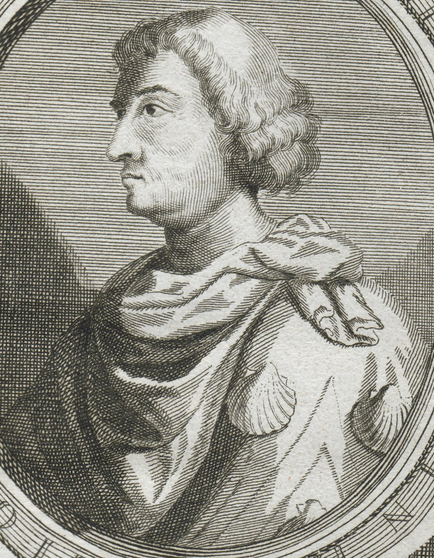 Philippe de Commines was a historian in France in the 15th century.